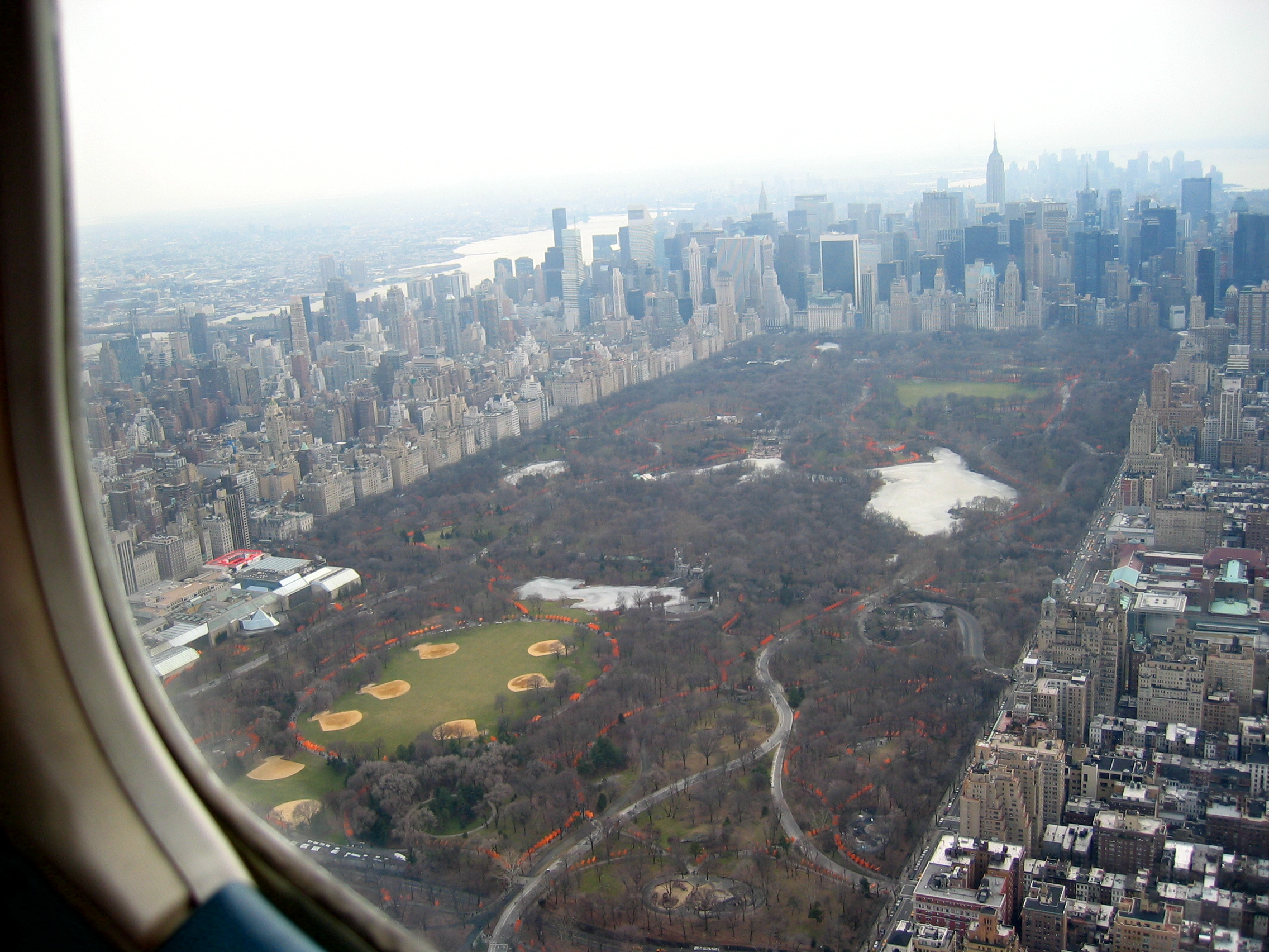 Digital photo taken on 12 February 2005 from a private airplane over Manhattan. Looking southeast over the southern half of Central Park from an altitude of approximately 2000 feet. Orange objects in the park are Christo's Gates. The large building complex at far left is the Metropolitan Museum. The Empire State building is visible in the background.